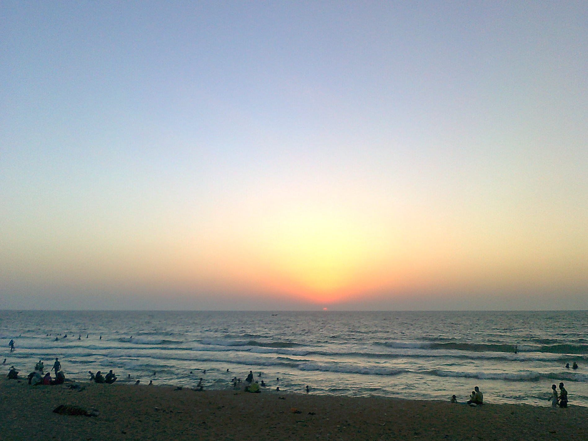 Sunset in Deir al-Balah beach on the Mediterranean Sea. شاطئ دير البلح على البحر الابيض المتوسط وقت الغروب